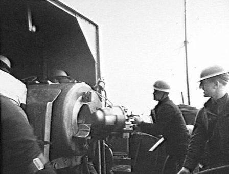 AWM caption : "BARDIA, LIBYA. 1941-01-02. ABOARD THE HMS LADYBIRD GUNNERS LOADING ONE OF THE TWO 6 INCH GUNS OF THE GUNBOAT DURING THE NAVAL BOMBARDMENT WHICH PRECEDED THE INFANTRY ASSAULT OF THE 6TH AUSTRALIAN DIVISION ON THE ITALIAN FORTRESS. THE LADYBIRD AT THE TIME WAS UNDER ALMOST POINT BLANK RANGE OF THE HARBOUR DEFENCE GUNS. (FILM STILL)." Comment : this shows a BL 6 inch 50-calibre Mk XIII gun, originally mounted on HMS Agincourt (ex Rio de Janeiro).